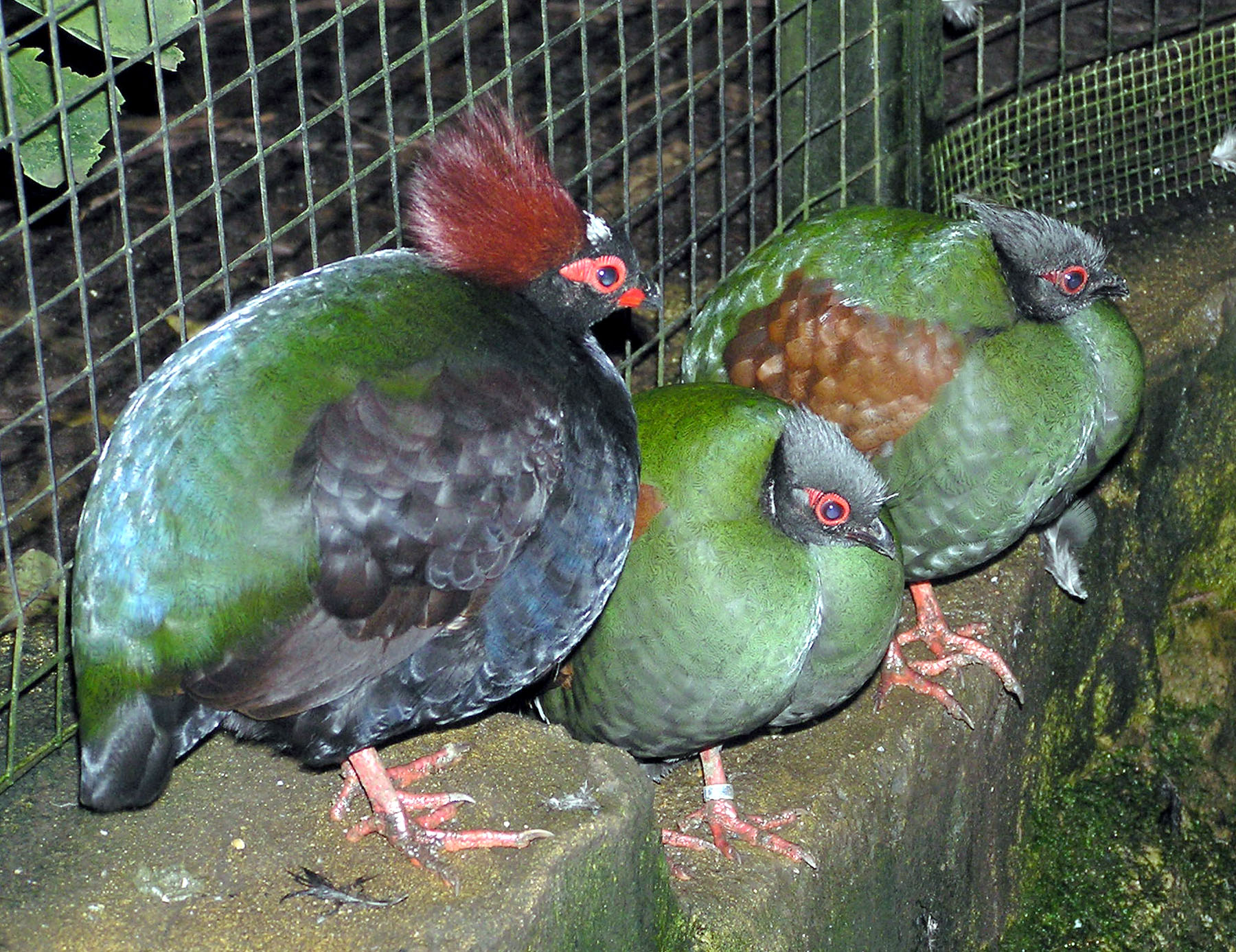 Crested Wood Partridge Rollulus rouloul in the aviary at Bristol Zoo, Bristol, England. Other names for this bird are Roul-roul, Red-crowned Wood Partridge and Green Wood Partridge. The male has the red head-feathers.